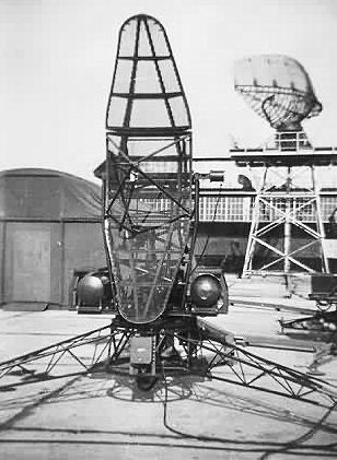 Radio Corporation of America AN/FPS-4 Radar